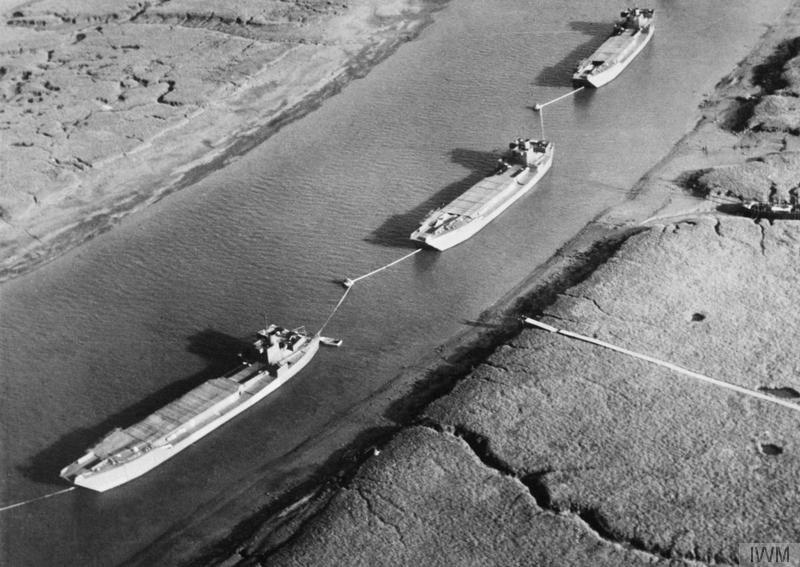 Dummy landing craft used as decoys in south-eastern harbours in the period before D-Day.